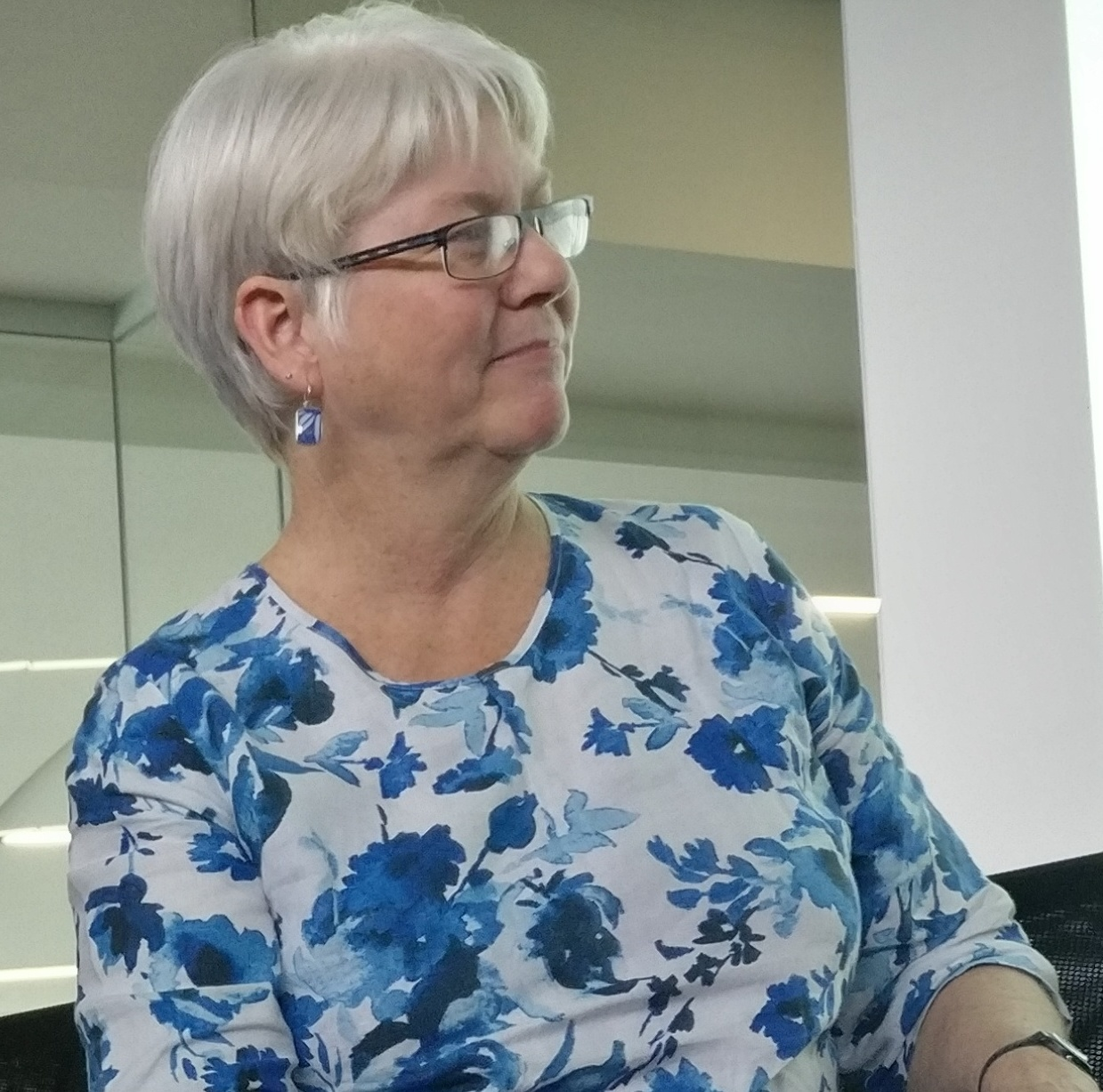 Wai Hong Than, Flaminia Catteruccia, Joanne Power, Michelle Muthui and Leann Tilley at a Women in Malaria workshop at BioMalPar 2019, EMBL Heidelberg. May 2019.0